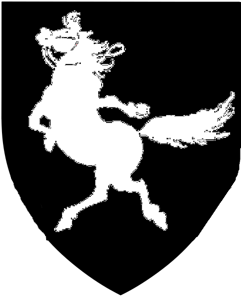 Coat of arms of Poictesme: sable, a stallion rampant argent